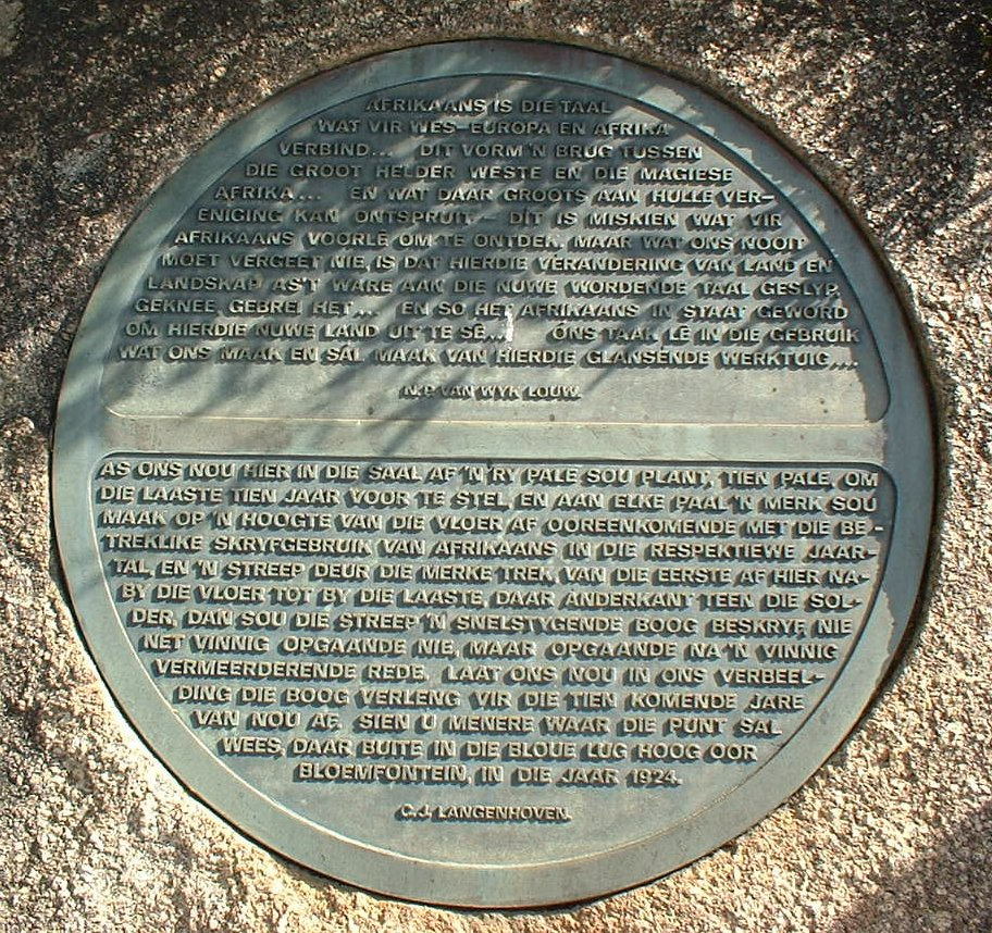 Enscription on a plaque in front of the Afrikaans Language Monument, near Paarl, South Africa. Translation of inscription Afrikaans is the language that links western Europe and Africa... it forms a bridge between the great bright west and the majestical Africa... and what greatness can sprout from this union...this may be what Afrikaans is destined to discover, but what we should never forget is that these changes of land and landscape sharpened, kneaded and knitted this new language..and in this fashion it became possible for Afrikaans to be spoken throughout this country...Our task is in the use that we make, and shall make of this tool -- N.P. van Wyk Louw If we plant a row of poles down this hall now, ten poles, to represent the last ten years, and on each pole we make a mark at a height from the floor corresponding to the relative written use of Afrikaans in the respective year, and we draw a line, from the first here near the floor to the last over there against the loft, then the line would describe a rapidly rising arc, not only quickly rising, but rising in a quickly increasing manner. Let us now, in our imagination, extend the arc for the ten coming years from now. See you, sirs, where the point shall be, outside in the blue sky high over Bloemfontein, in the year 1924. -- C.J. Langenhoven